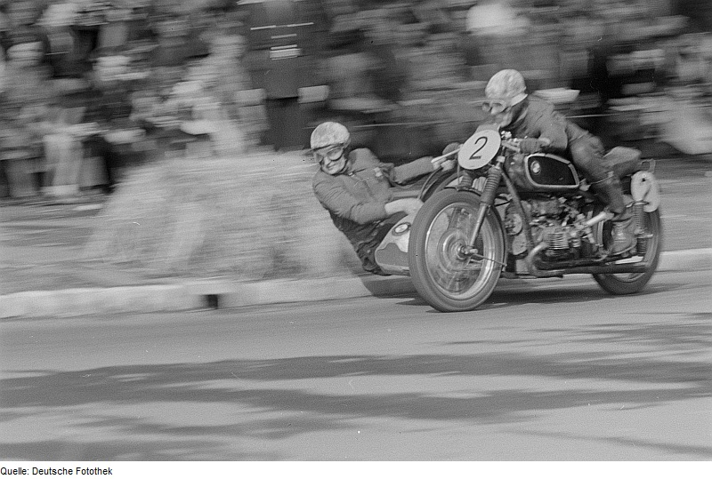 Original image description from the Deutsche Fotothek Motorradfahrer